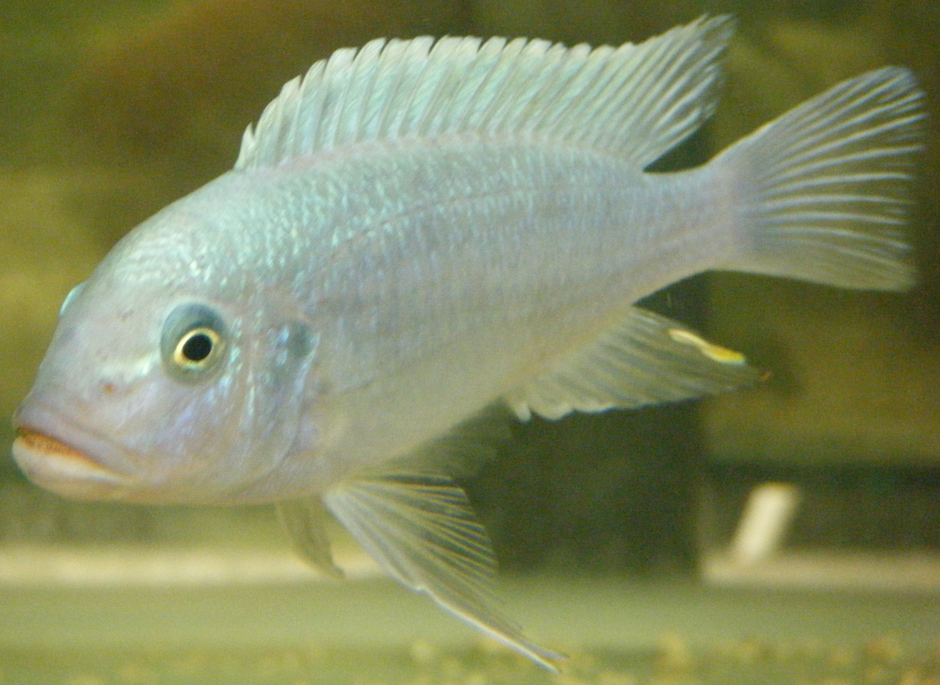 Maylandia callainos, wild caught blue morph male from Thumbi West Island